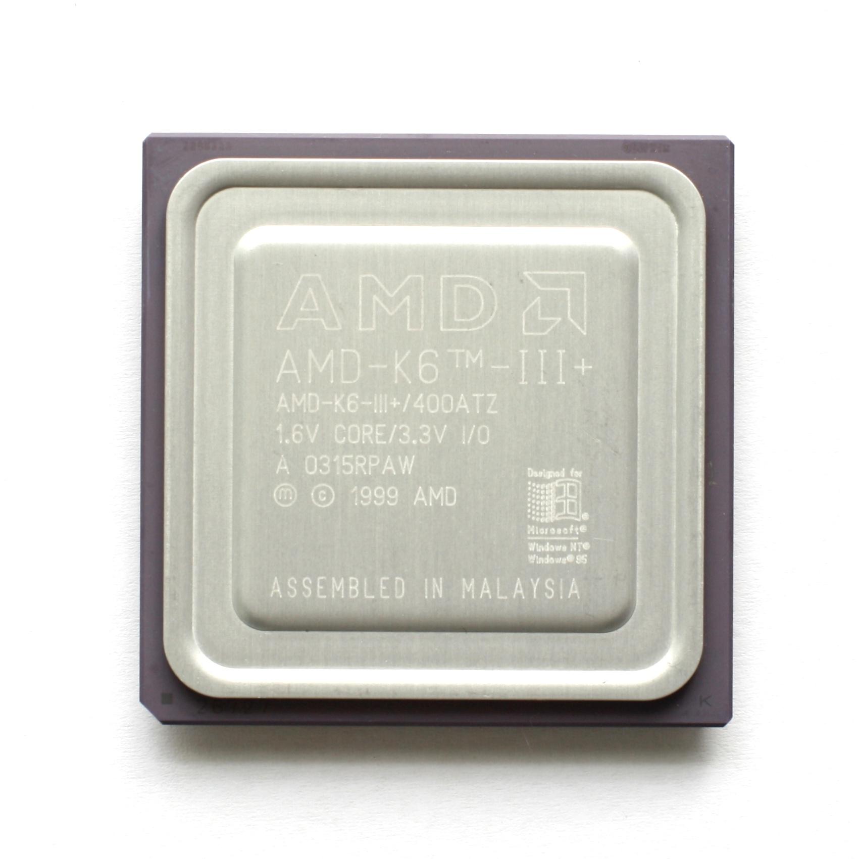 x86-CPU AMD K6-IIIE+ (embedded version with 1,6v Vcore)